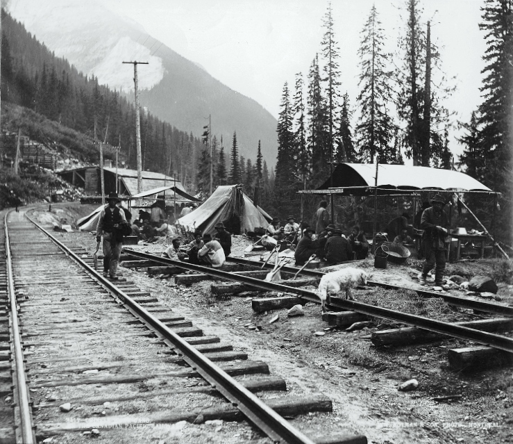 Photograph, Chinese work gang on the C.P.R., Glacier Park, BC, 1889, William McFarlane Notman, Silver salts on glass - Gelatin dry plate process - 20 x 25 cm